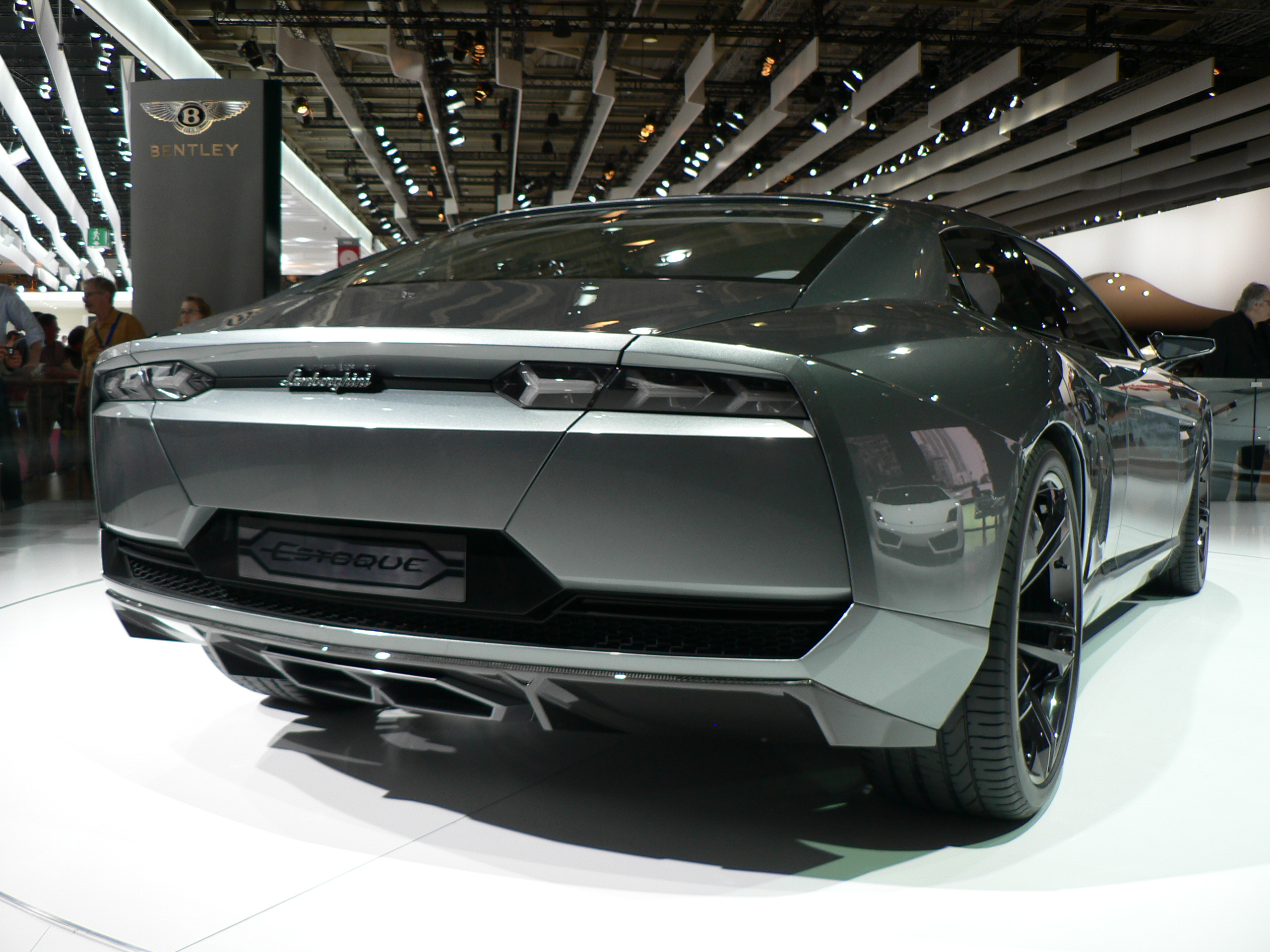 Lamborghini Estoque at the 2008 Paris Motor Show